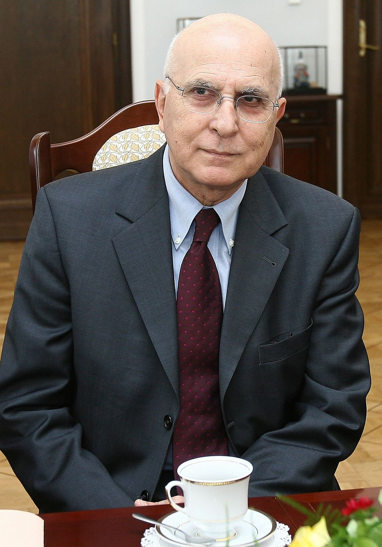 European Commissioner for the Environment Stavros Dimas in the Polish Senate